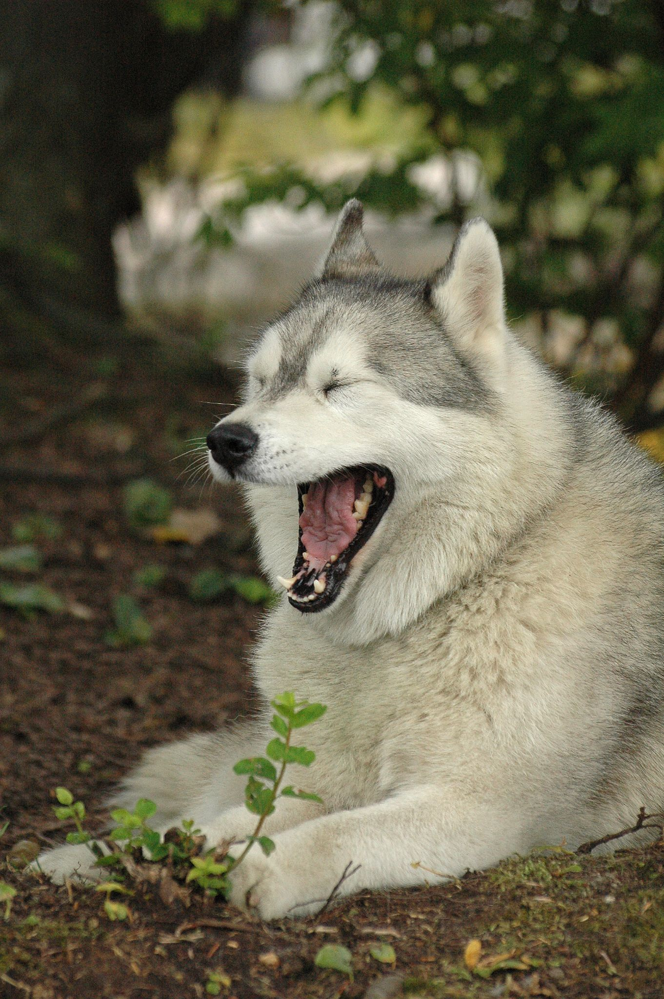 Yawning Husky